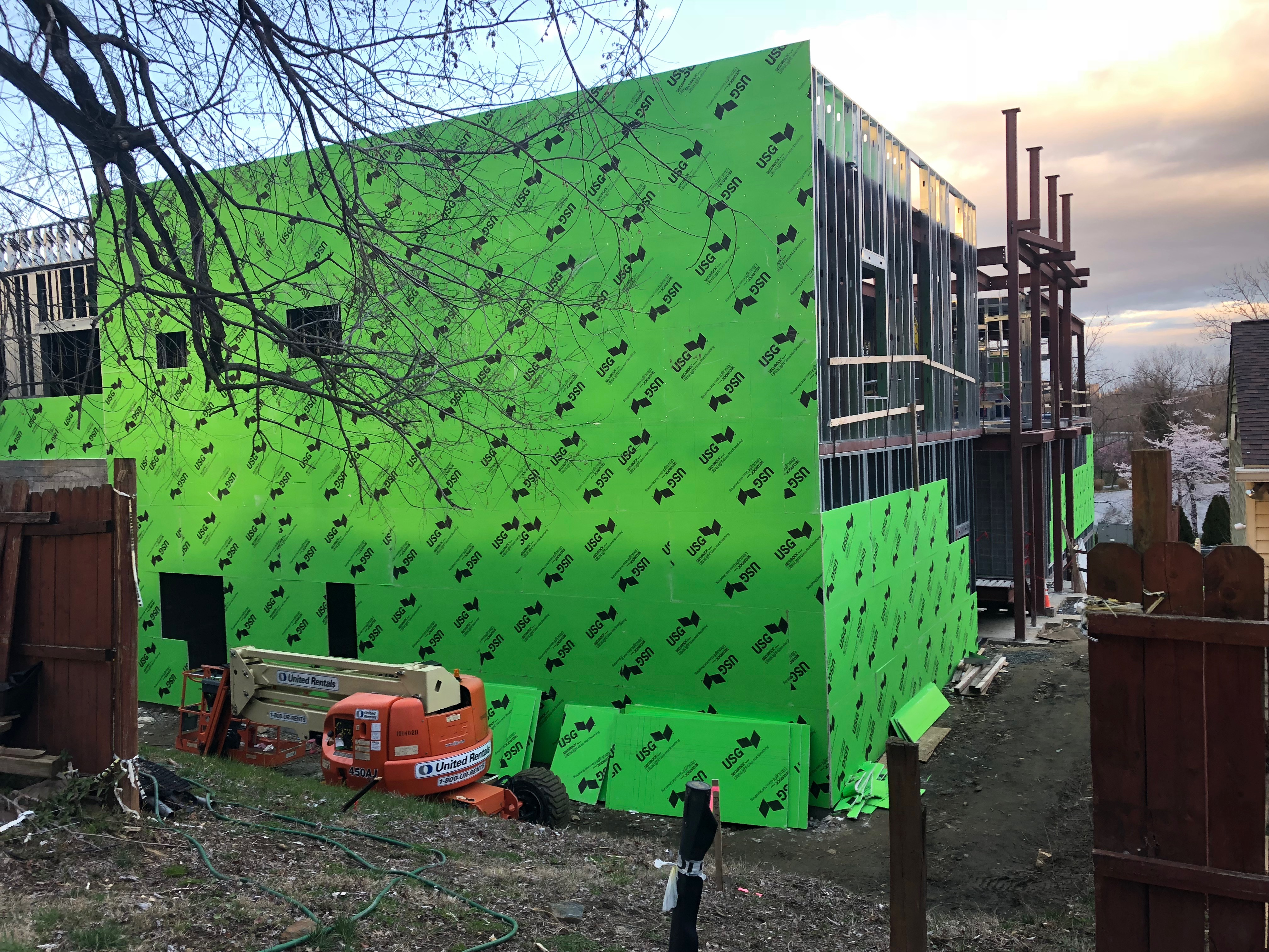 The Islamic Society of Baltimore is undergoing construction, in March 2020, as part of an expansion project.